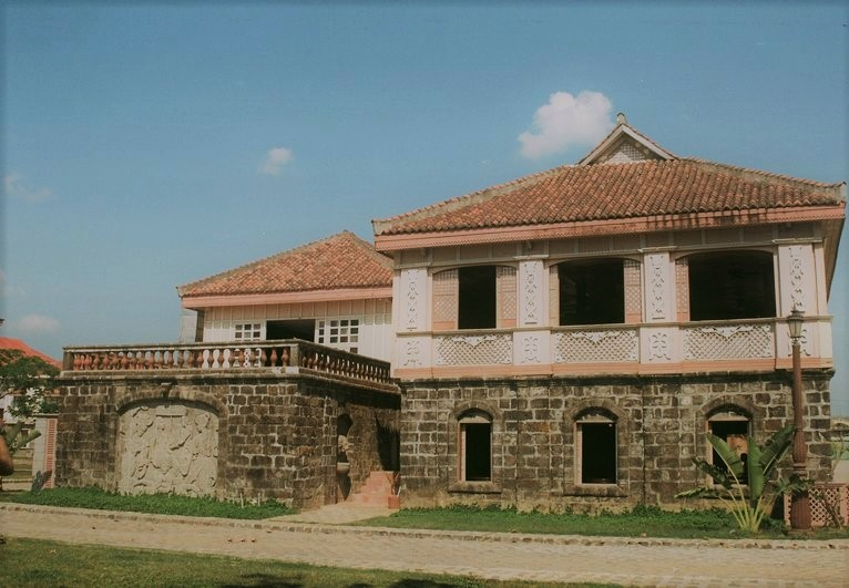 a fine example of Bahay na Bato house